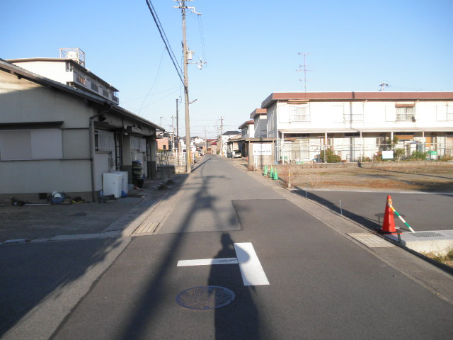 Furumiya Harimatown Hyogopref